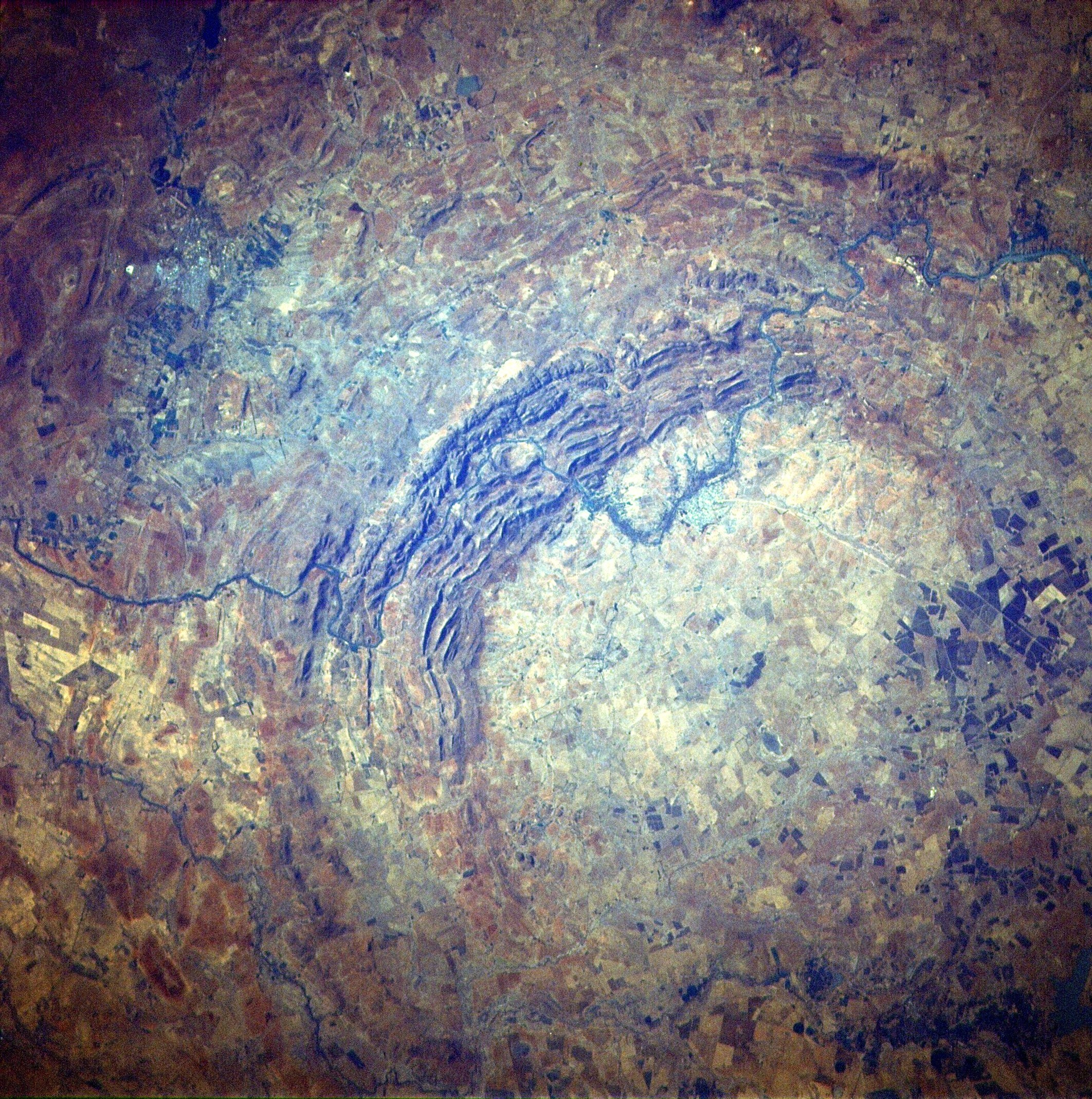 Vredefort Dome, Free State, South Africa. Image #STS51I-33-56AA.